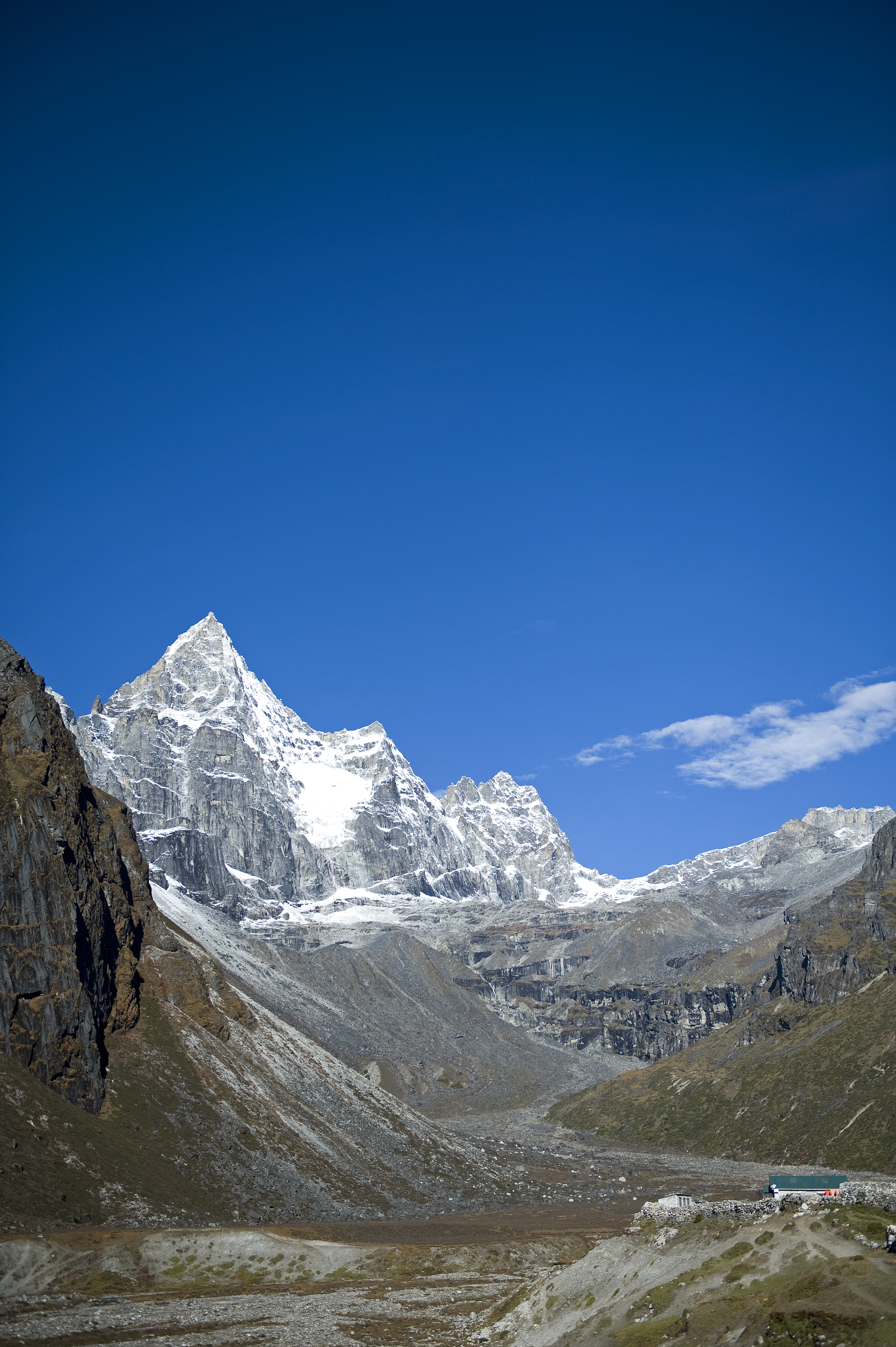 Machermo Peak viewed from Machermo